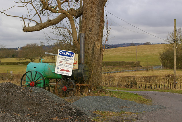 Entrance to Robins Cook Farm Home to an independent Citroen repair firm and also base for the annual Redfest pop festival. In the background on the left can be seen the tower of the former Royal Earlswood Hospital and in the distance on the right are the masts on Reigate Hill.